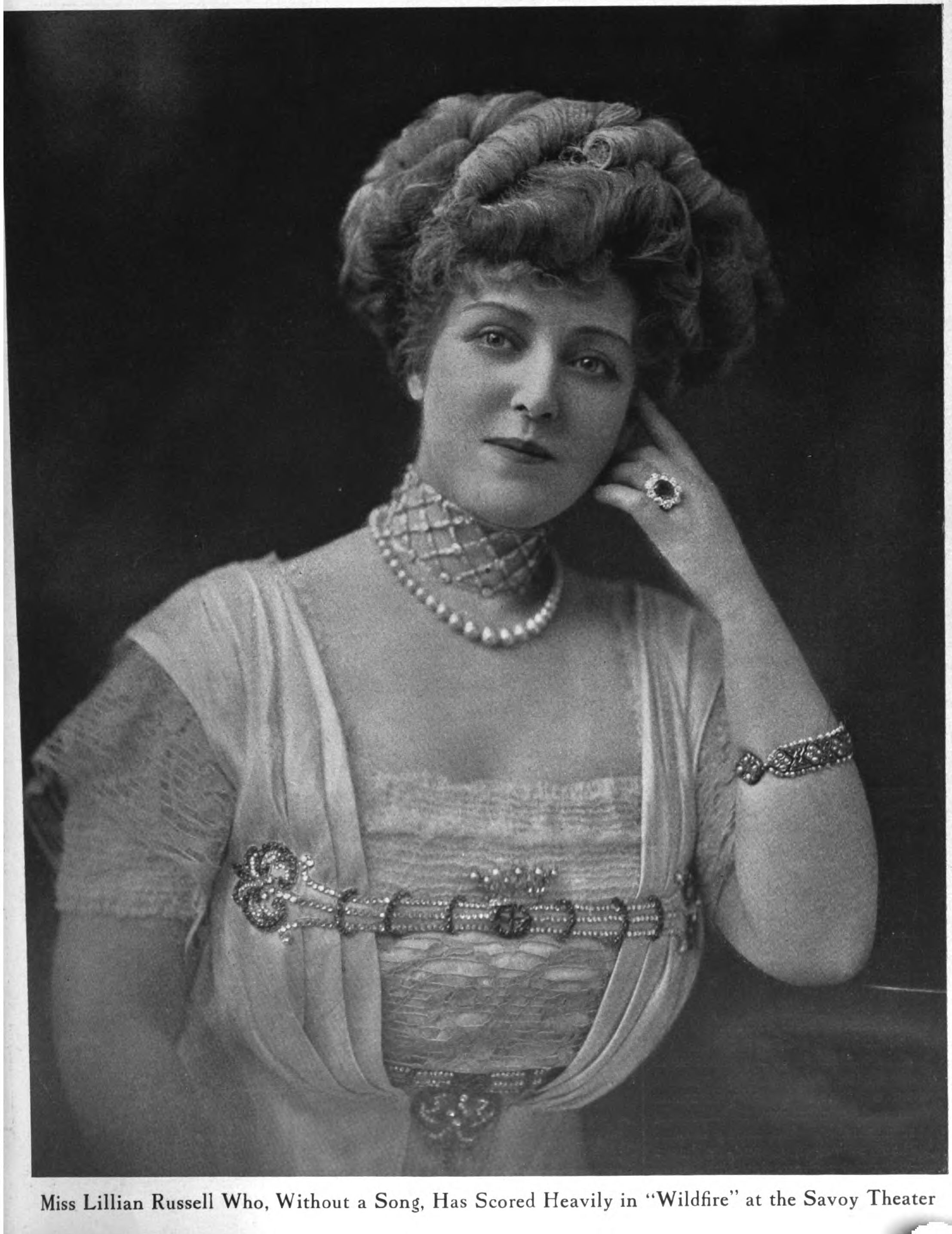 Lillian Russell (December 4, 1860 – June 6, 1922) in Wildfire.